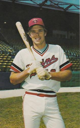 Color postcard from the 1981 Minnesota Twins postcard set of professional baseball player Ray Smith